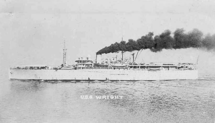 USS Wright (AZ-1)